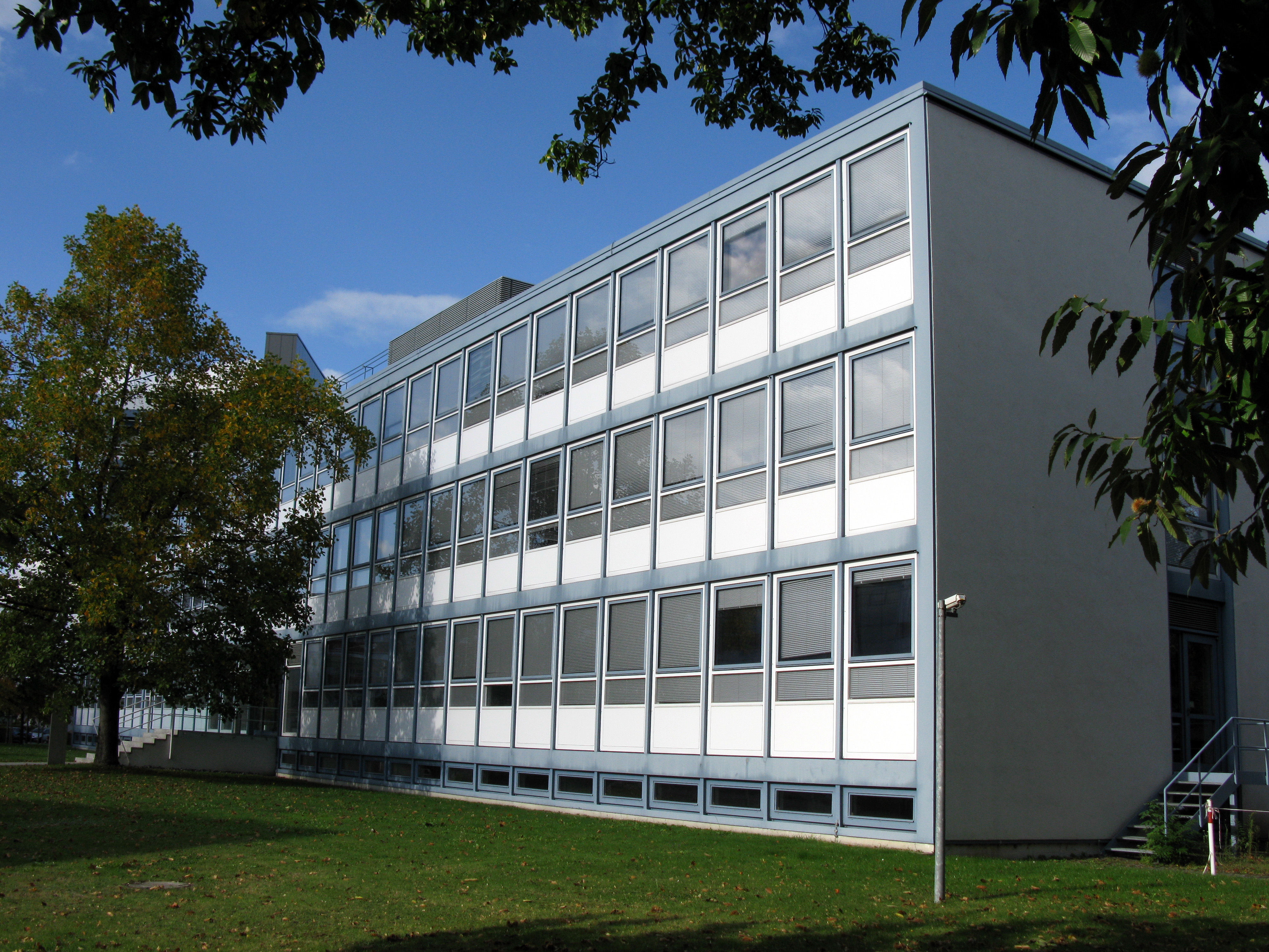 Officebuilding by Egon Eiermann built in 1953-54 for Burda-Moden, listed for preservation and renovated 2001 by Ingenhoven Overdiek und Partner